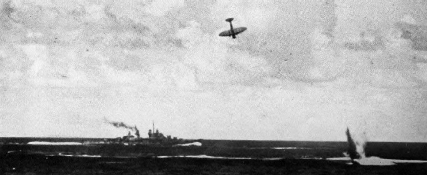 A Japanese Aichi D3A1 ("Val") dive bomber crashing next to the U.S. Navy light cruiser USS San Diego (CL-53) during the Battle of the Santa Cruz Islands, 26 October 1942.